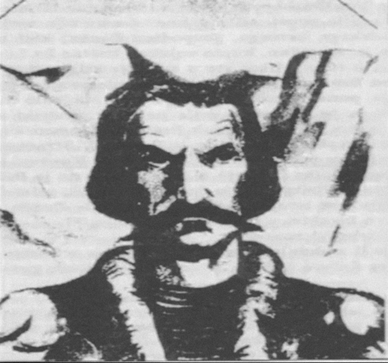 Depiction of Đurađ II Stracimirović Balšić.